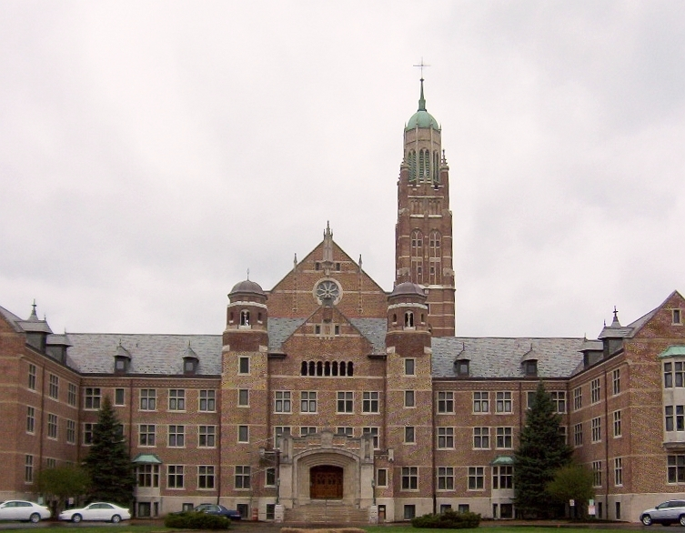 The Pontifical College Josephinum is a Roman Catholic seminary (graduate and undergraduate programs) located in Columbus, OH.